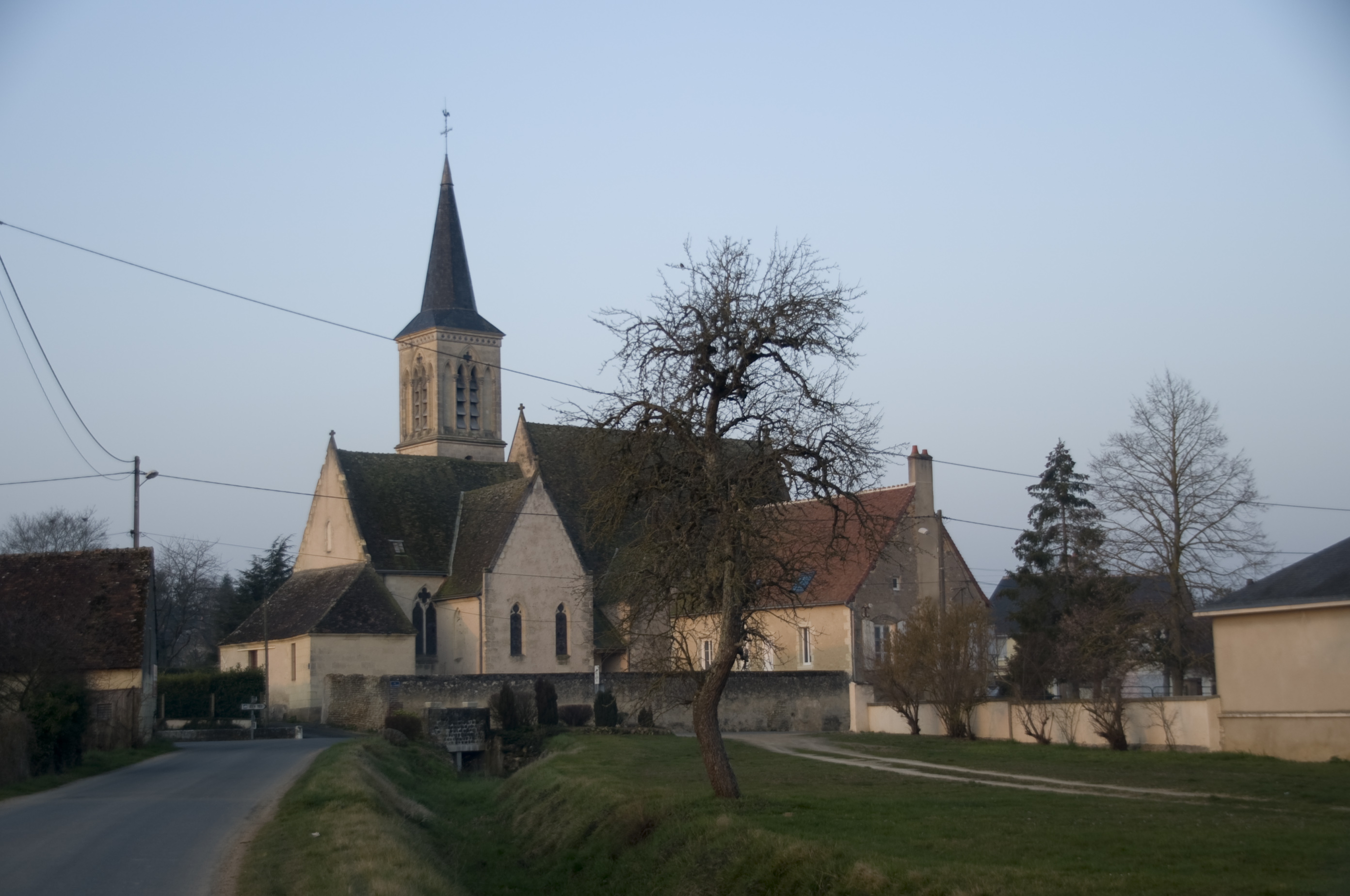 Sun rising at Ternay (Loir et Cher, France)